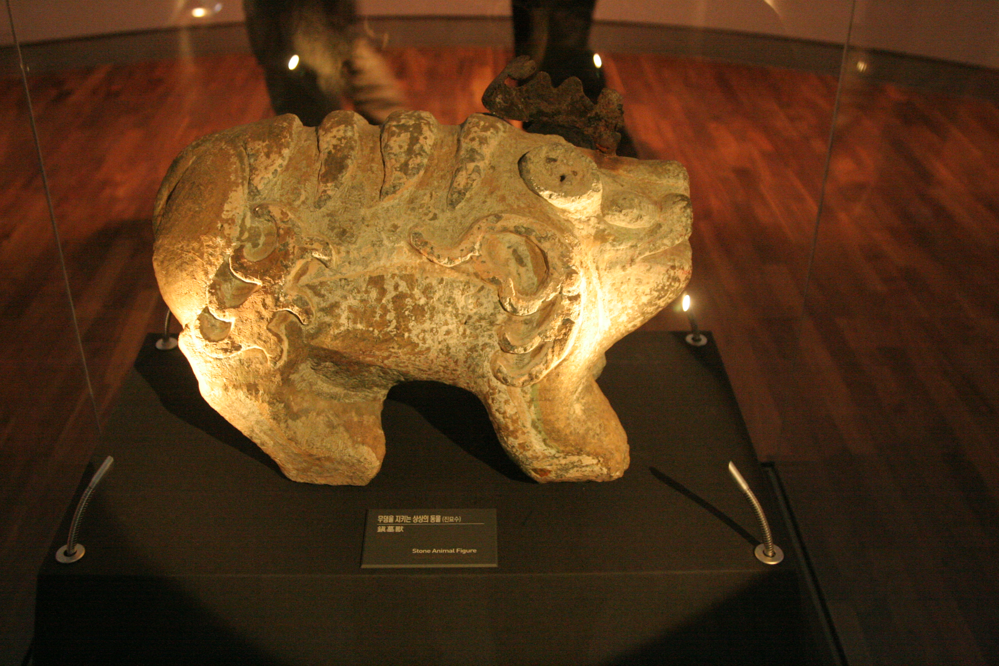 A rare tomb guardian from Baekje. Prototypes of these tomb guards are from the second Han Dynasty.